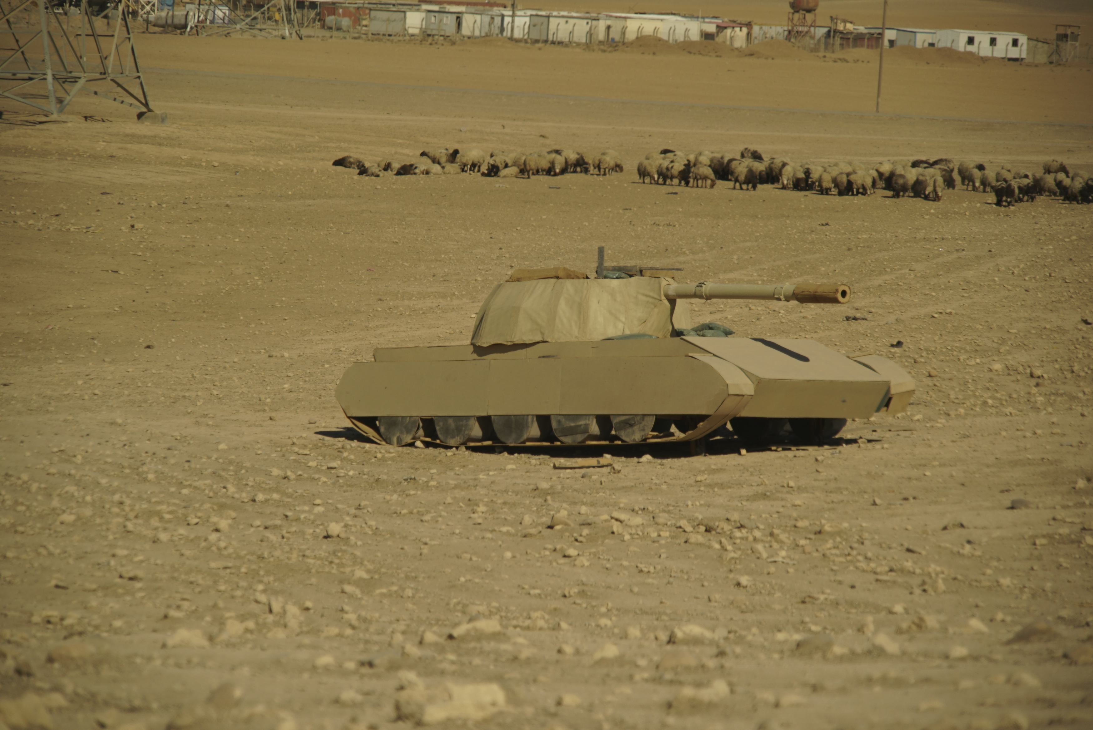 Fake ISIS tank. South of Mosul. Northern Iraq, Western Asia. 23 November, 2016.